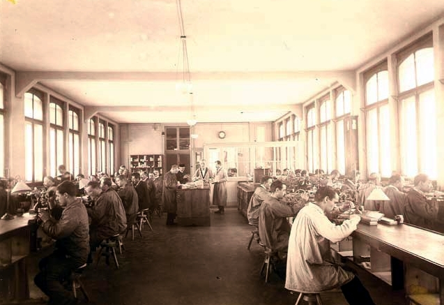 Final assembly of watches in the La Chaux-de-Fonds workshop.